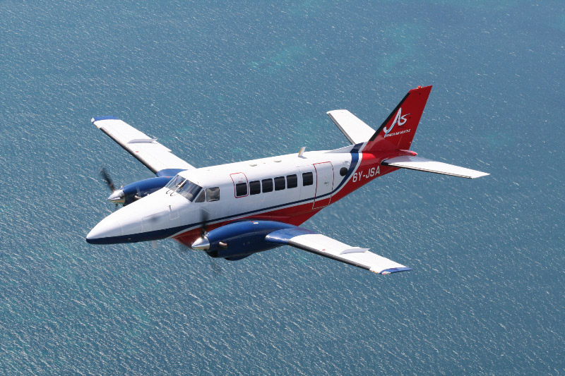 Photo of Beechcraft 99 "Airliner" Jamaica Air Shuttle flight taking off from Tinson Pen in Kingston